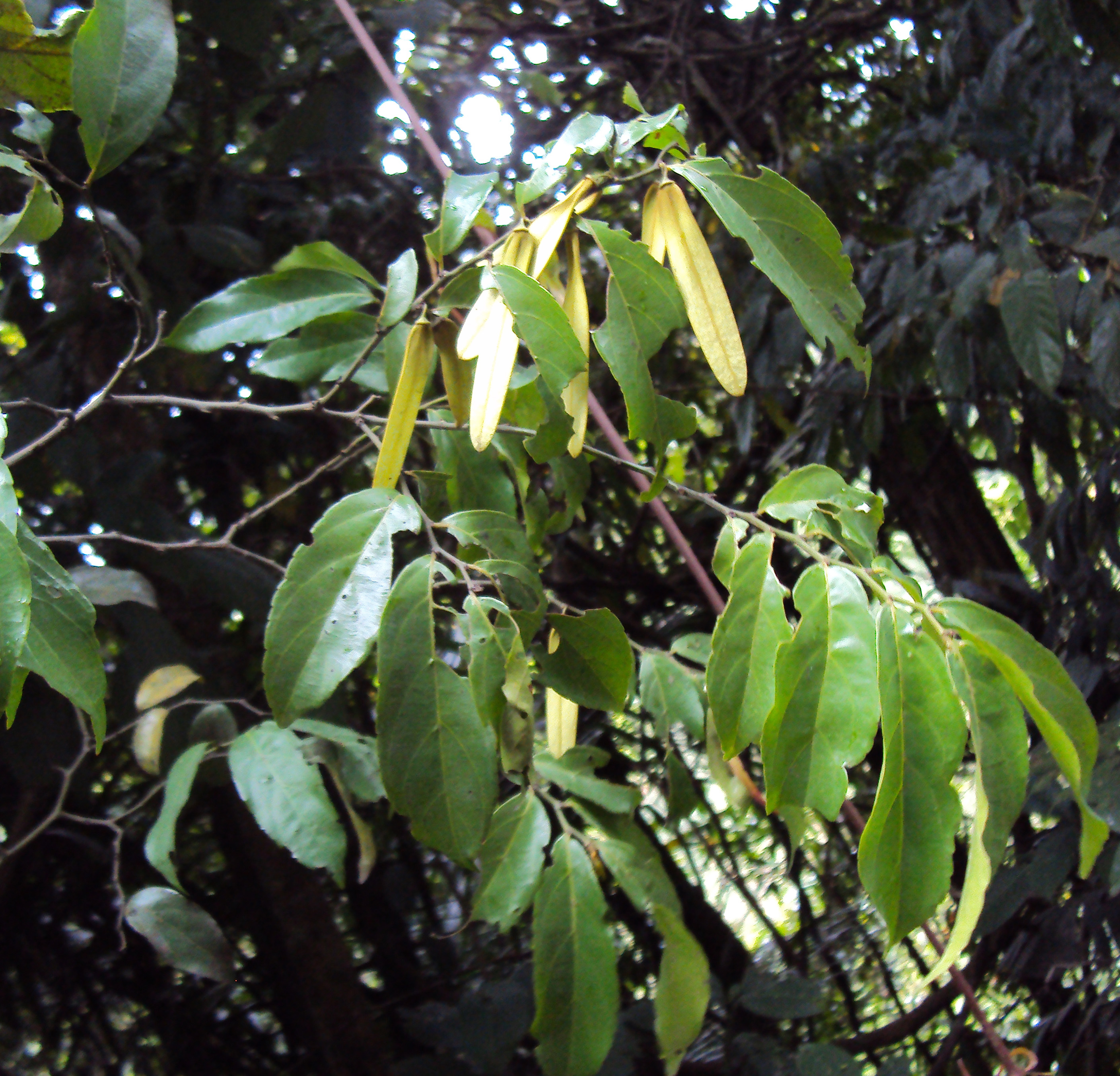 Ventilago maderaspatana